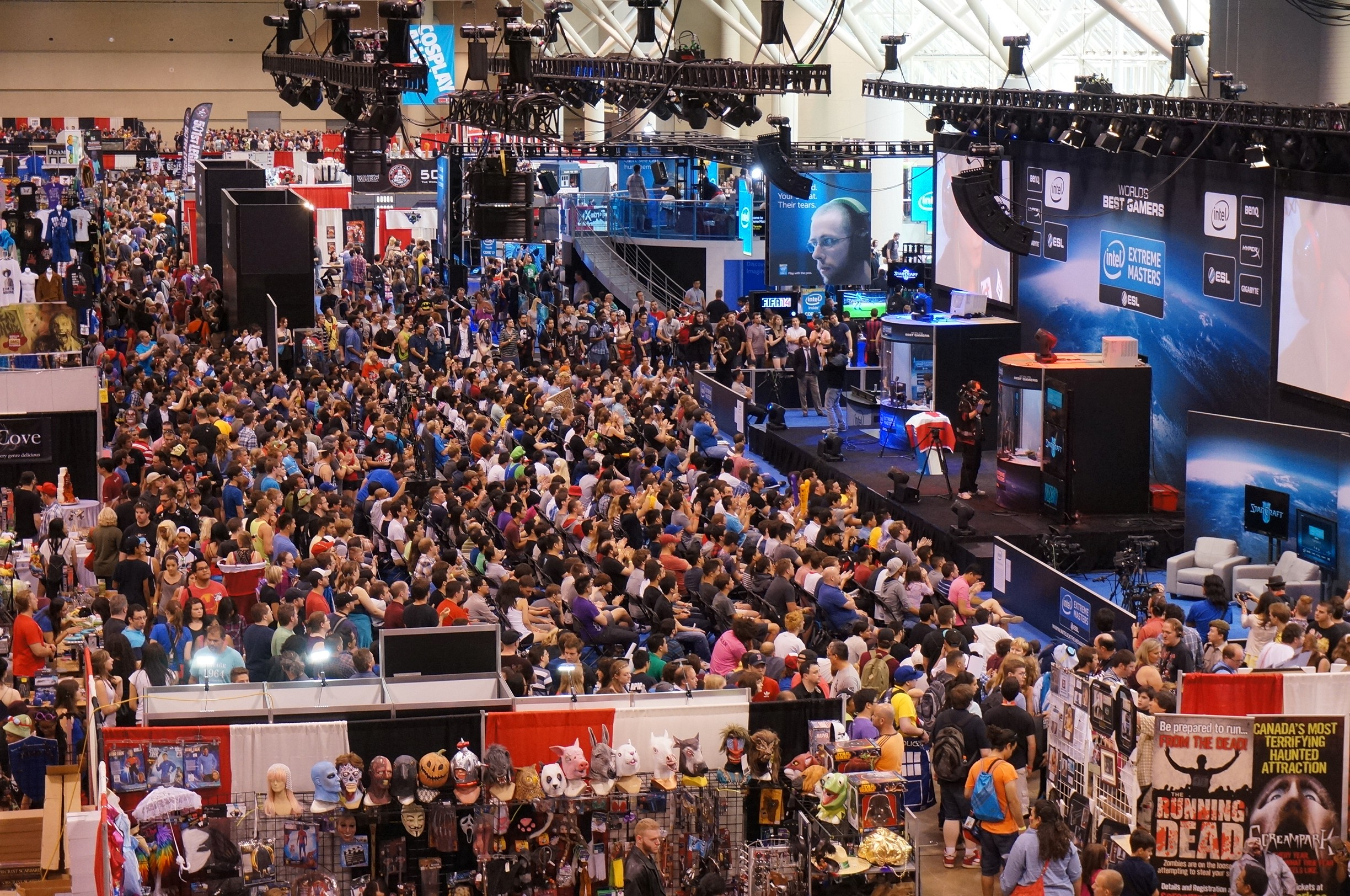 A capacity crowd gathers at Fan Expo Canada to watch the final match at Intel Extreme Masters Toronto. SEE MORE: Professional Gaming is the Spectator Sport of the Future With lucrative cash prizes and sponsorship deals, eSports gamers are next generation pro athletes.